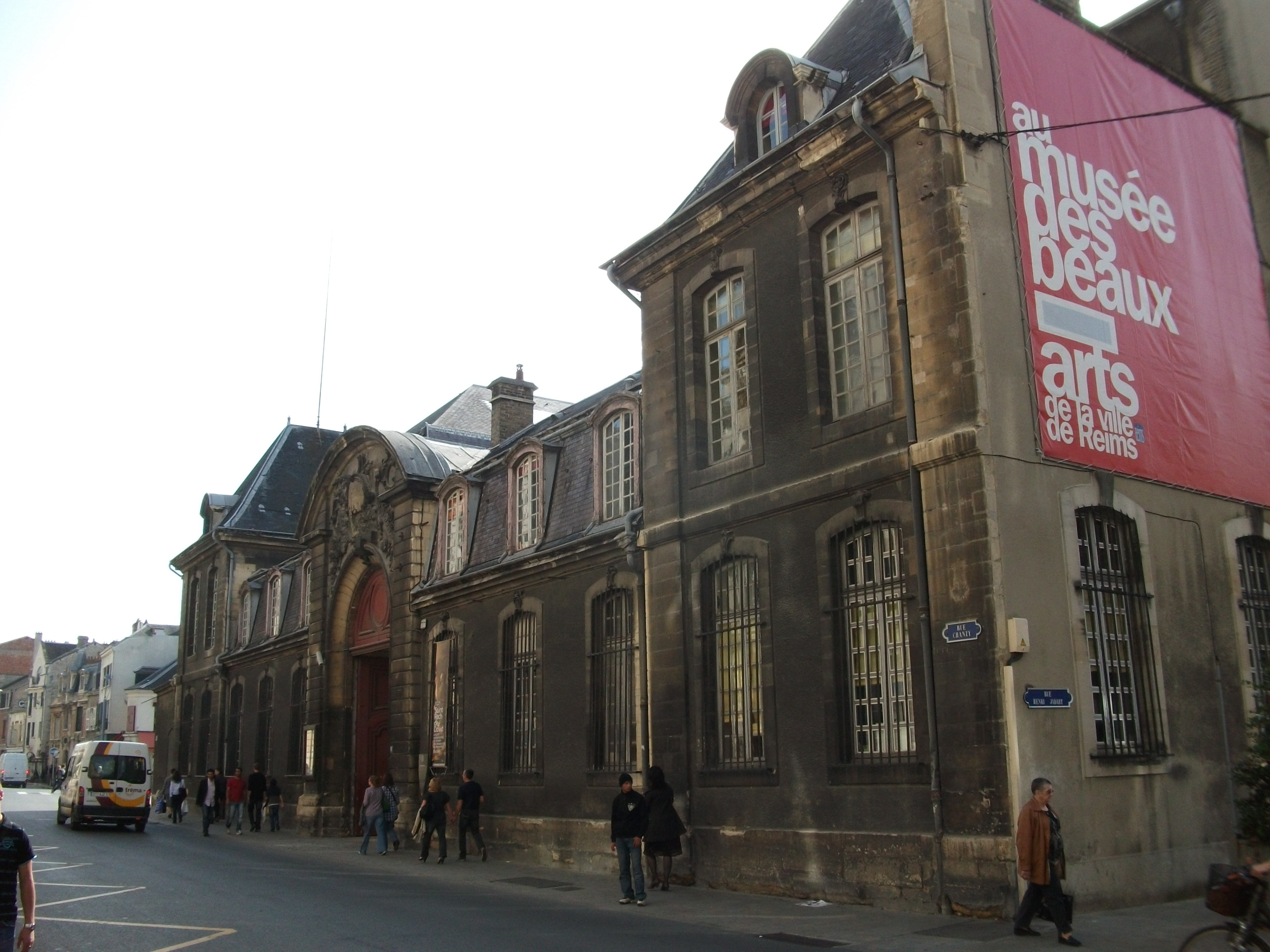 Façade du Musée_des_beaux_arts_de Reims, elle est classée monument historique. Ancienne abbaye st-Denis du XVIIIe siècle.